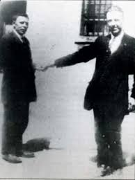 Patrick Maher and Ed Foley in Mountjoy Jail